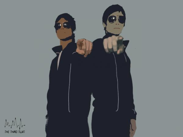 The Third Twin